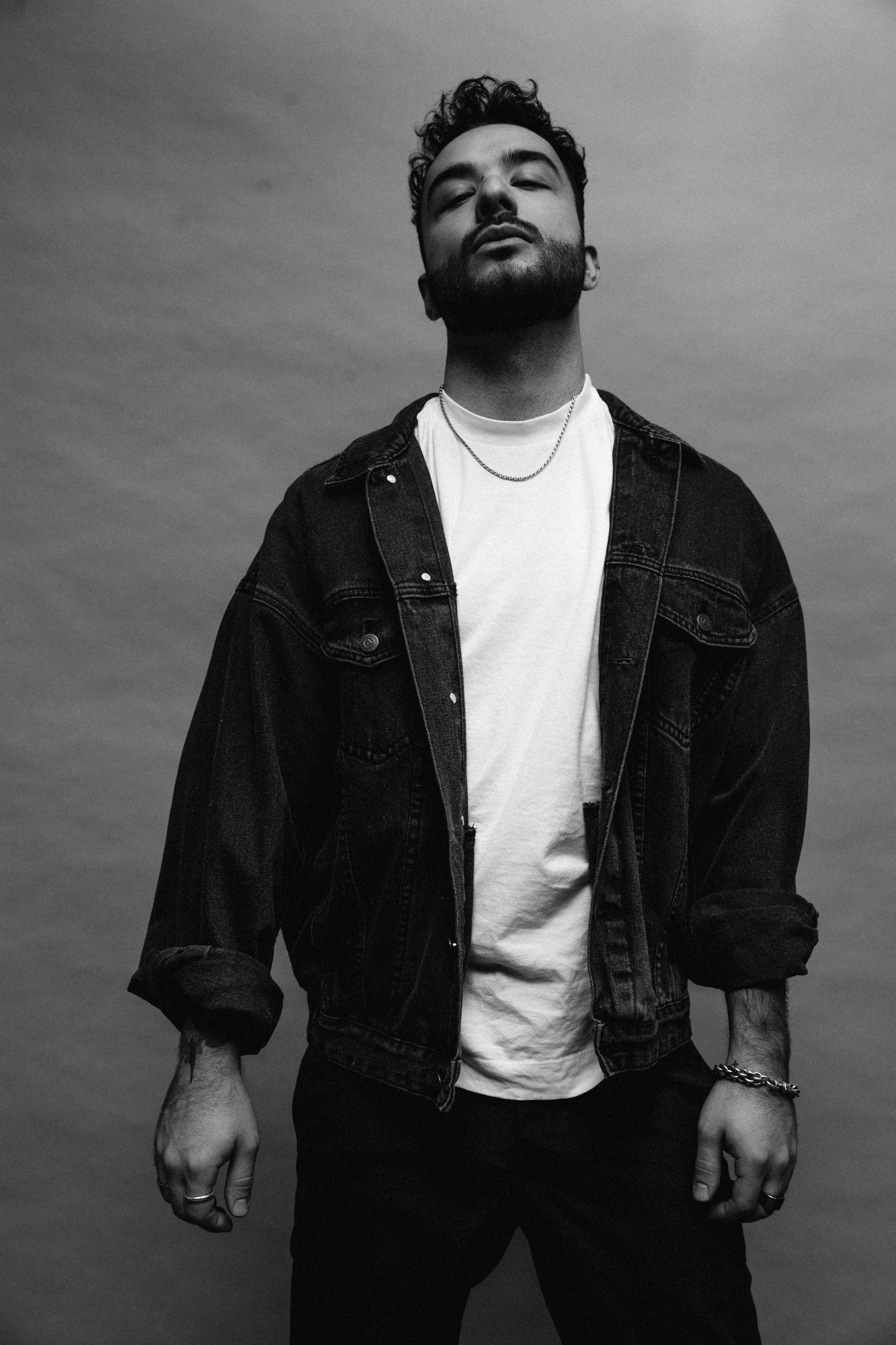 tim aminov